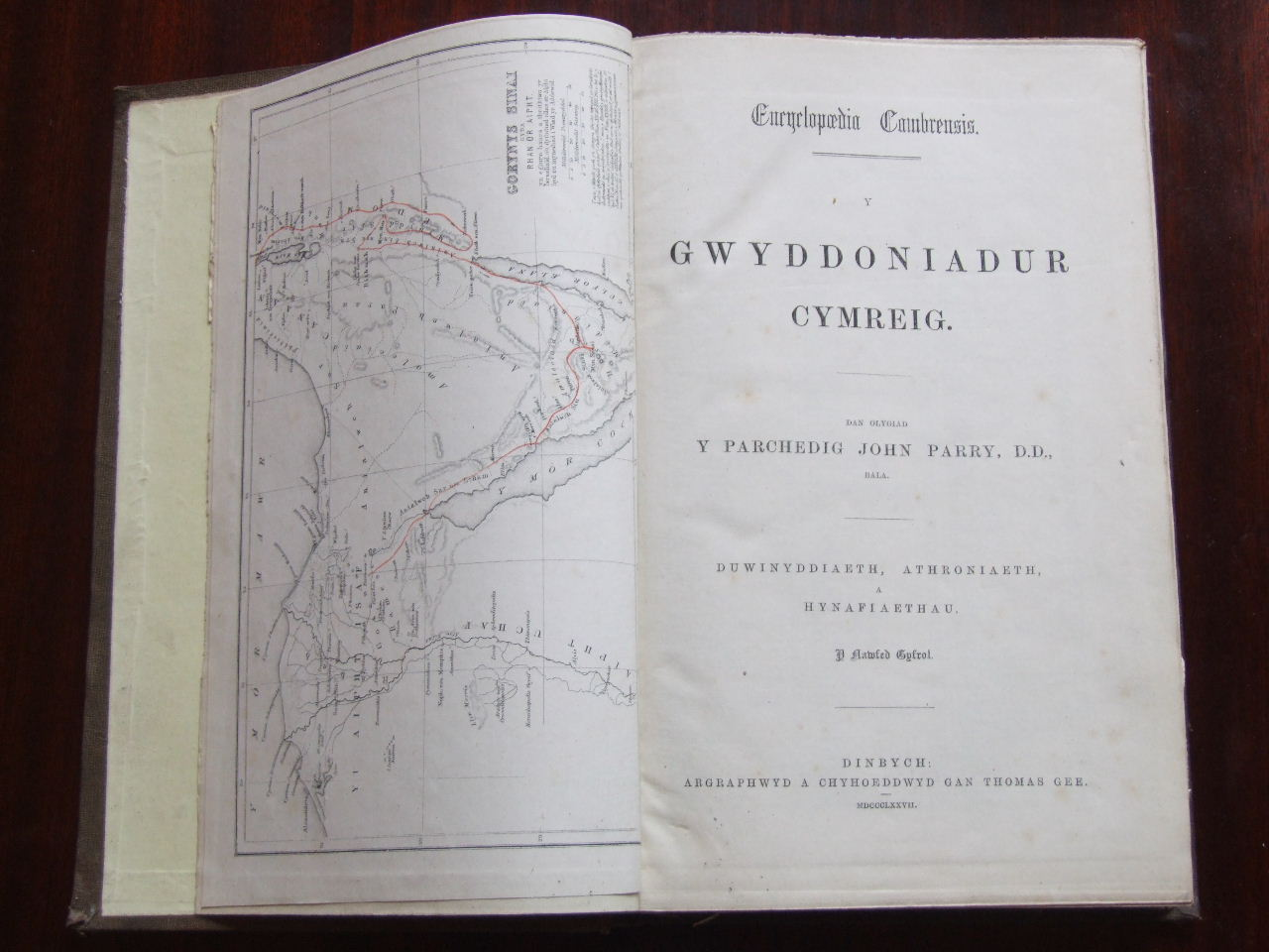 Title page and frontispiece map of Vol. IX of Y Gwyddoniadur Cymreig (Thomas Gee, Denbigh, 1878). This Welsh-language encyclopedia was published in 10 volumes between 1854 and 1879 and contains over 9,000 double-column folio pages.